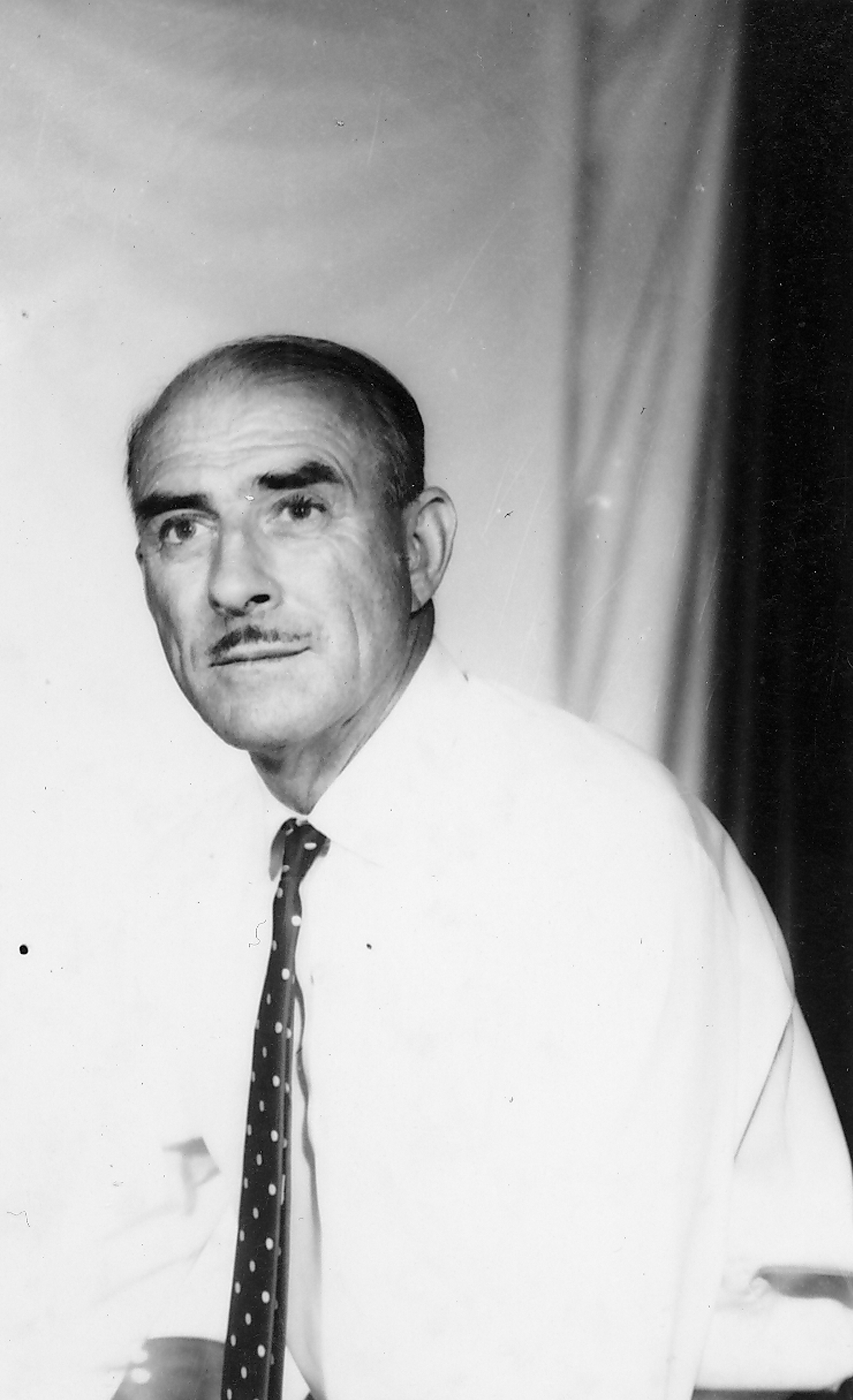 A portrait of Eric Charles Izod taken by Darwin photographer Lillian Dean. PH0748-0044